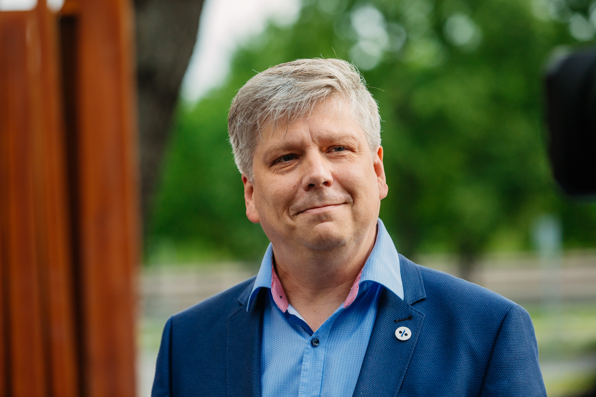 Siim Kiisler, Minister, Ministry of Environment, Estonia